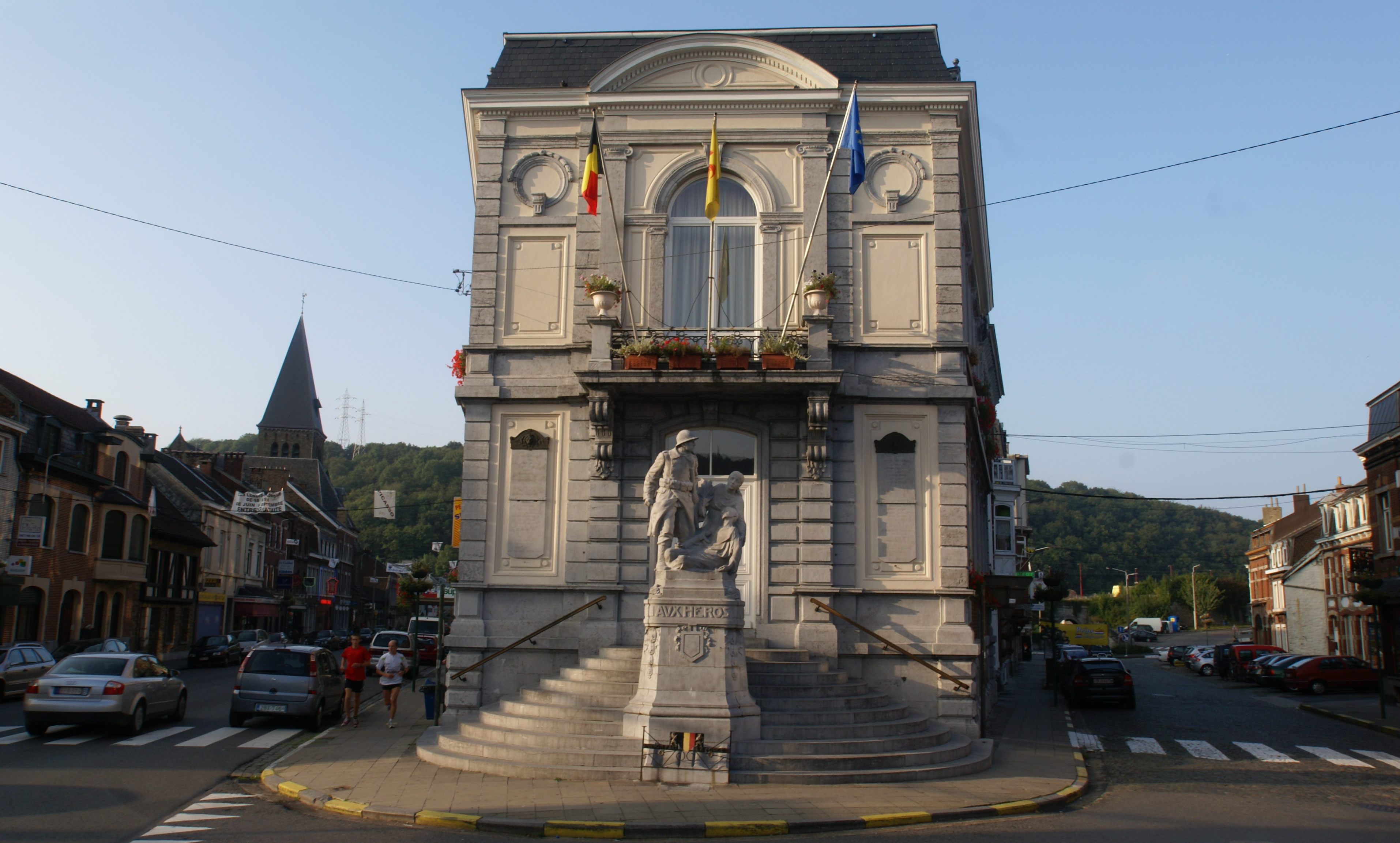 Pepinster (Belgium): Town Hall and war memorial